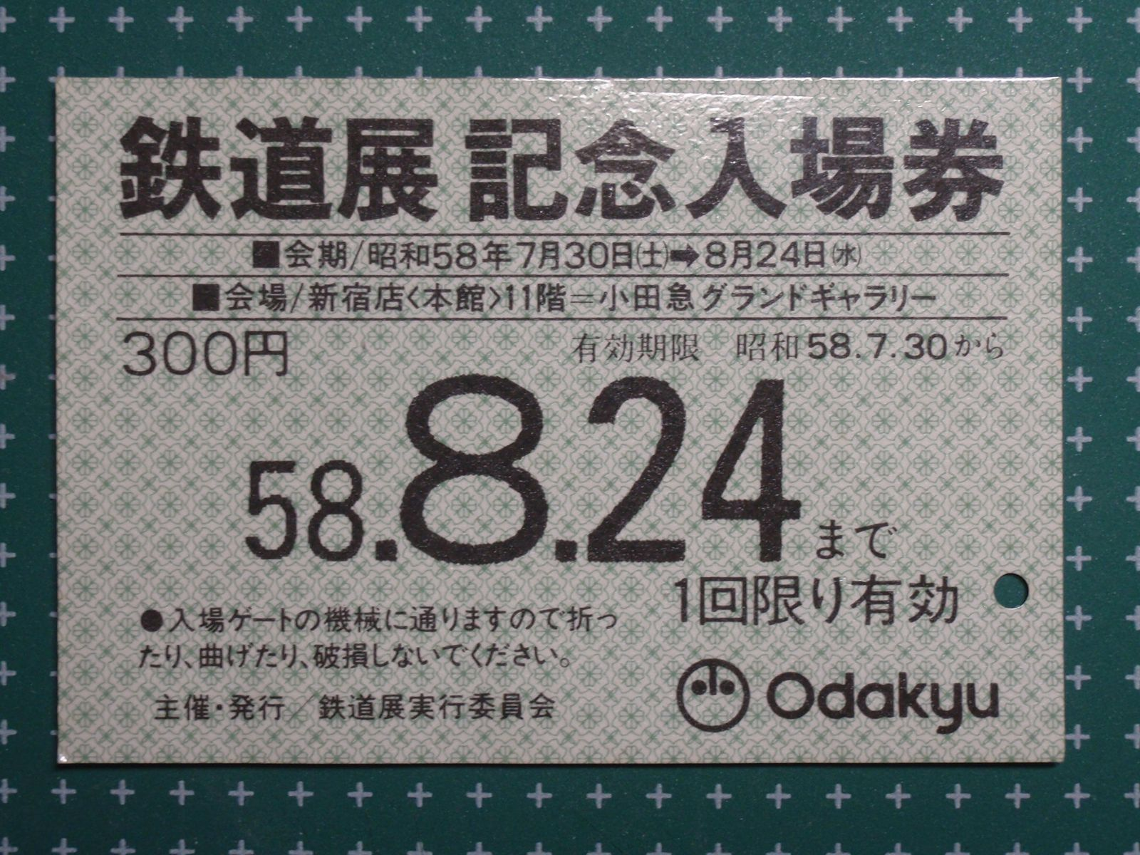 Admission ticket of "Railway exhibition" done at Odakyu department store in 1983